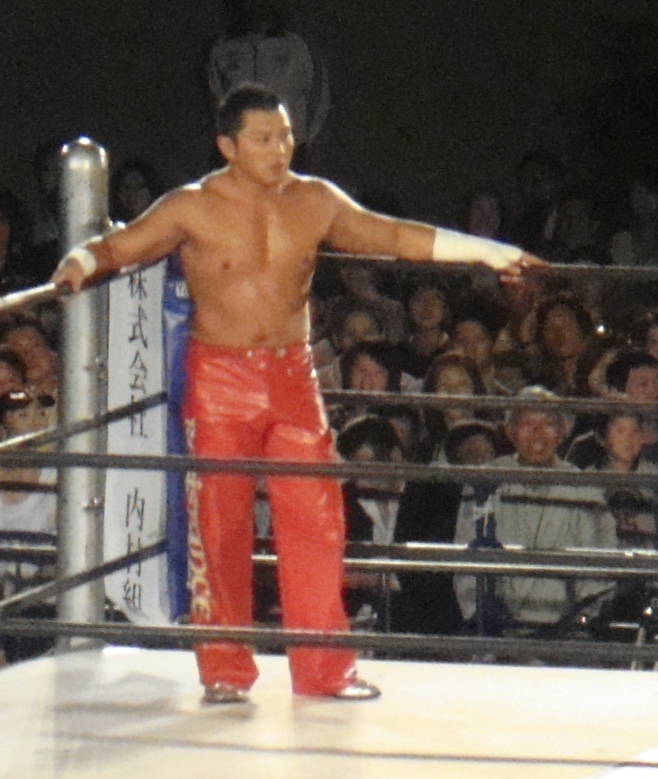 Wataru Sakata, during his match in Yokohama on 4 May 2009